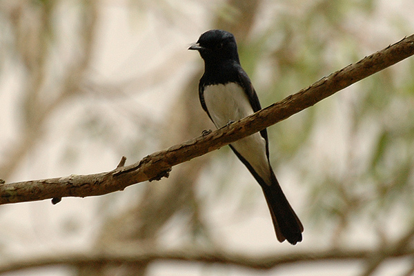 Male Satin Flycatcher (Myiagra cyanoleuca)